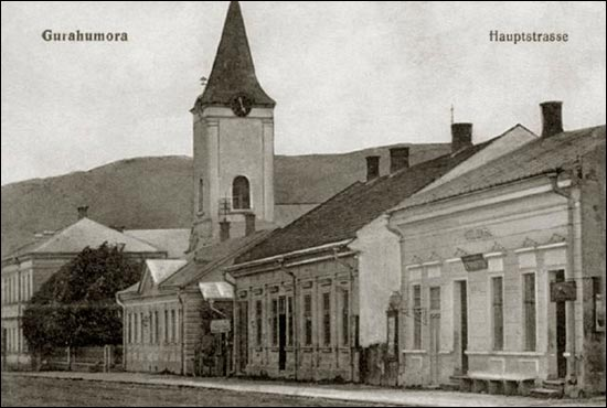 Roman-Catholic Church of Gura Humorului, Suceava County, Romania